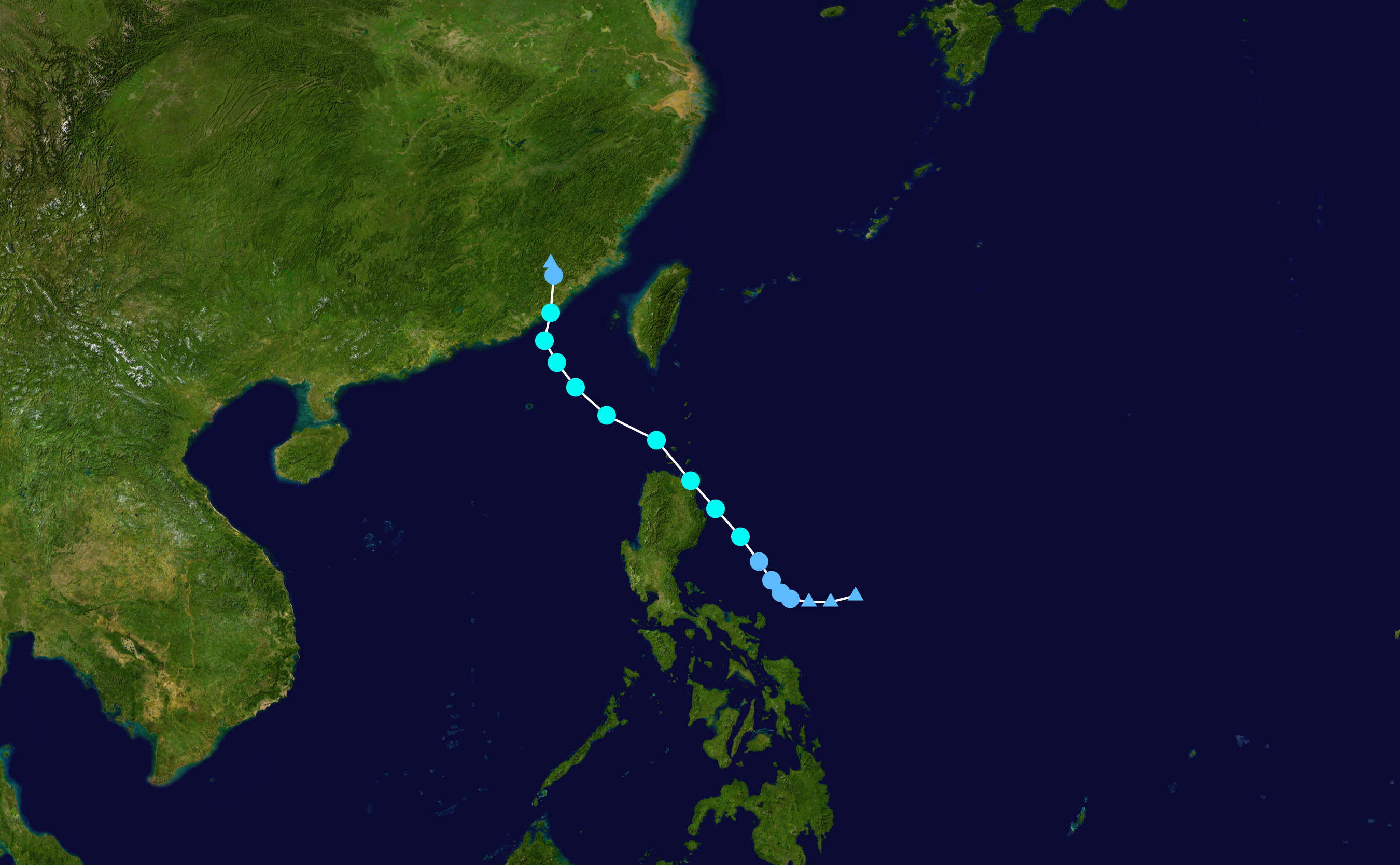 Track map of Tropical Storm Cimaron of the 2013 Pacific typhoon season. The points show the location of the storm at 6-hour intervals. The colour represents the storm's maximum sustained wind speeds as classified in the Saffir–Simpson scale (see below), and the shape of the data points represent the nature of the storm, according to the legend below. Saffir–Simpson scale Tropical depression≤38 mph≤62 km/h Category 3111–129 mph178–208 km/h Tropical storm39–73 mph63–118 km/h Category 4130–156 mph209–251 km/h Category 174–95 mph119–153 km/h Category 5≥157 mph≥252 km/h Category 296–110 mph154–177 km/h Unknown Storm type Tropical cyclone Subtropical cyclone Extratropical cyclone / Remnant low / Tropical disturbance / Monsoon depression